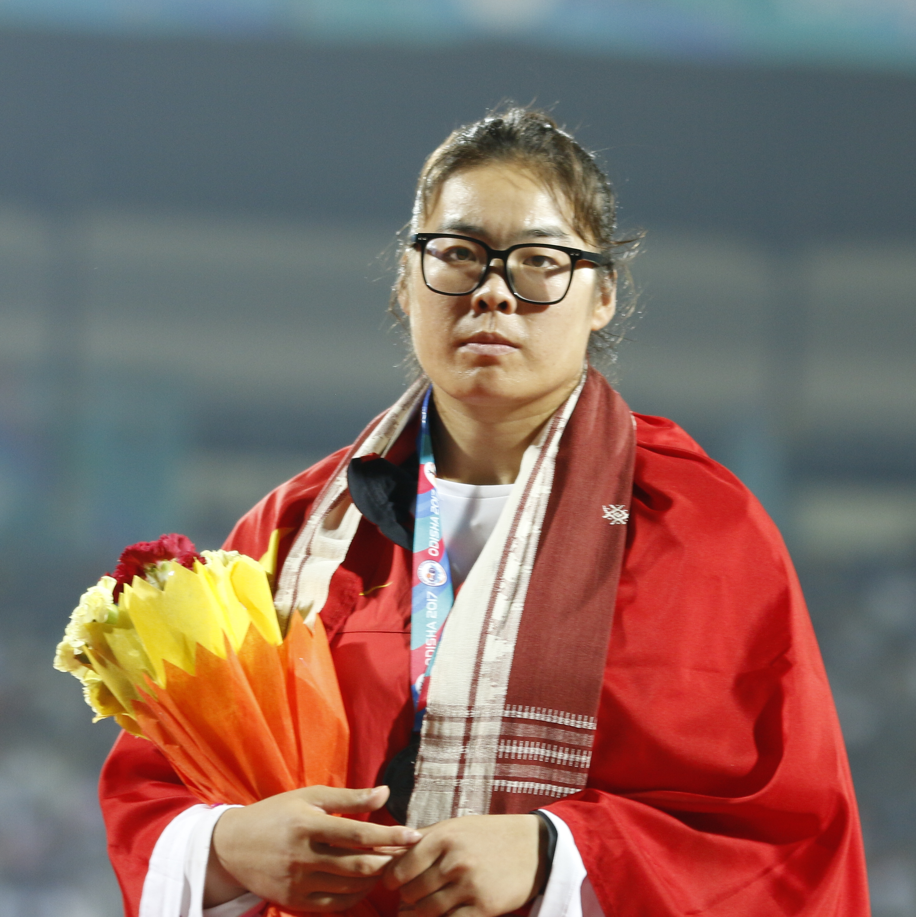 Women Discus Throw Lu Xiaoxin Of China, Bronze Winner in Odisha in 2017